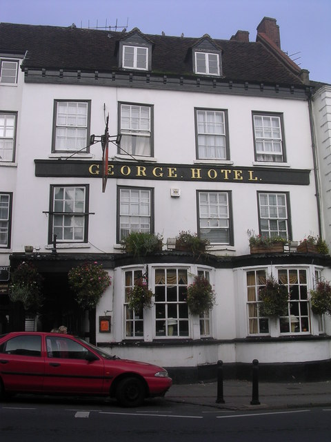 George Hotel, Bewdley